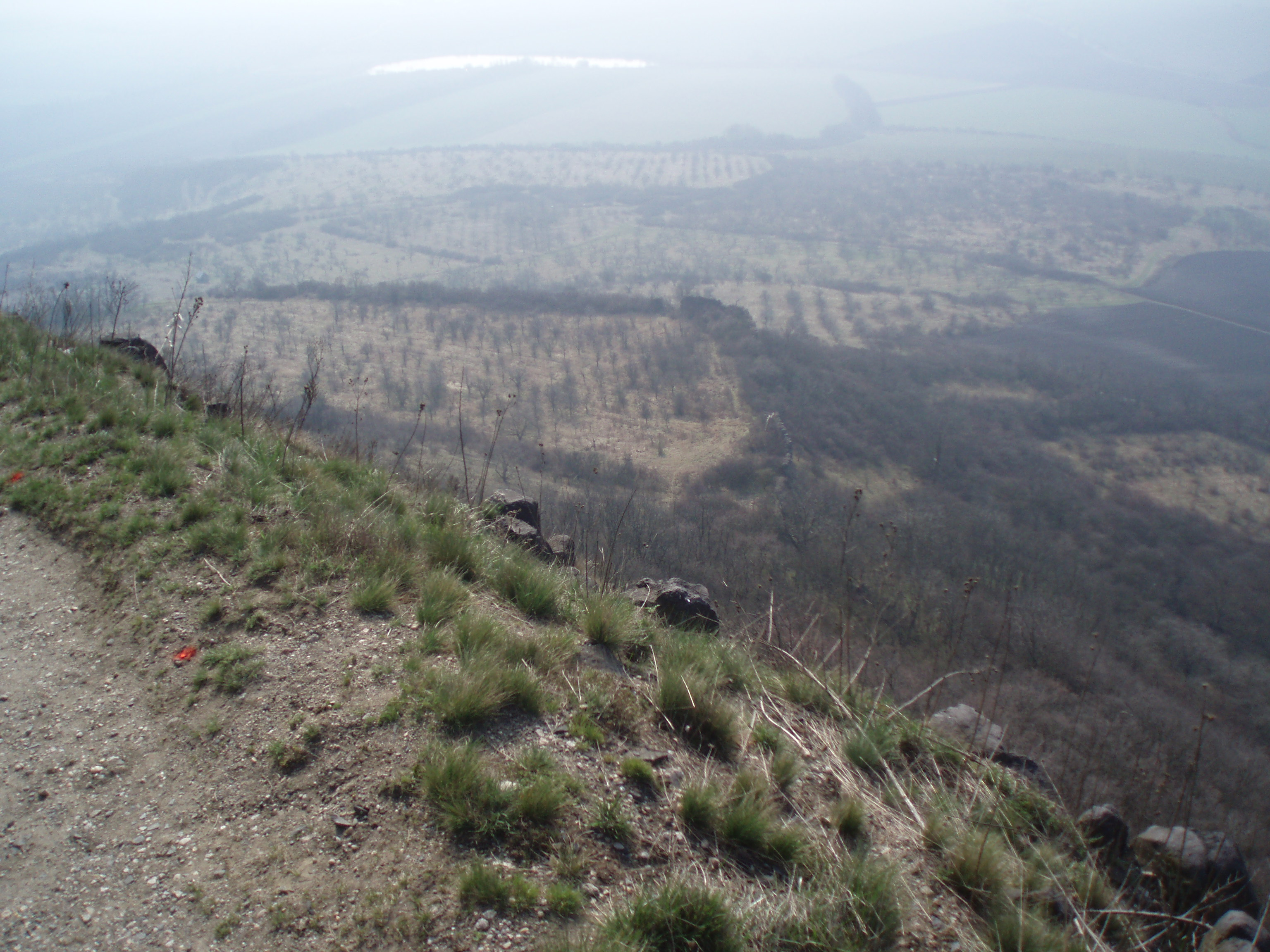 Natural monument Vrch Hazmburk near Klapý and Slatina pod Hazmburkem village in Litoměřice District, Czech Republic. Southern slope